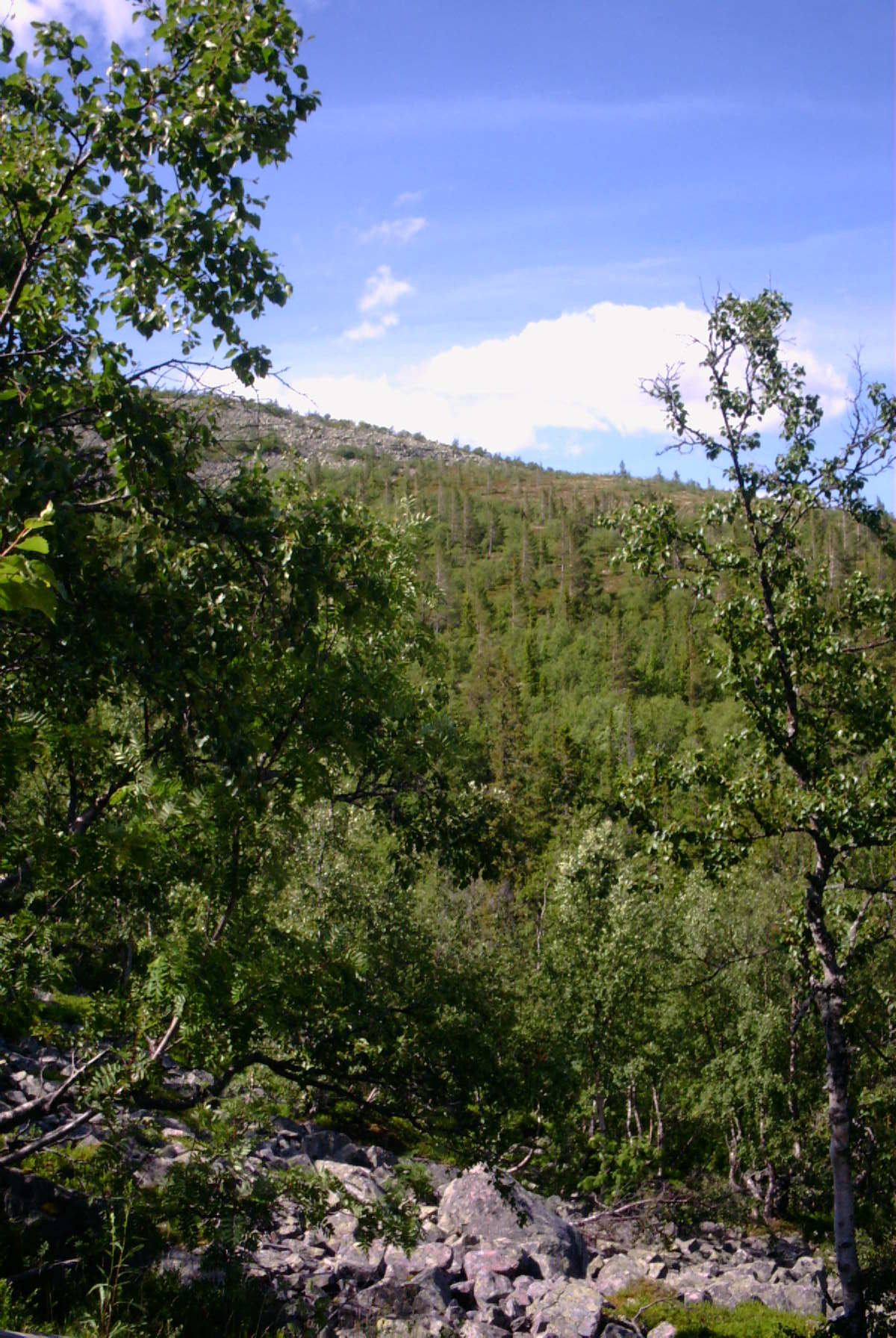 View over the Fulufjället national park, Sweden